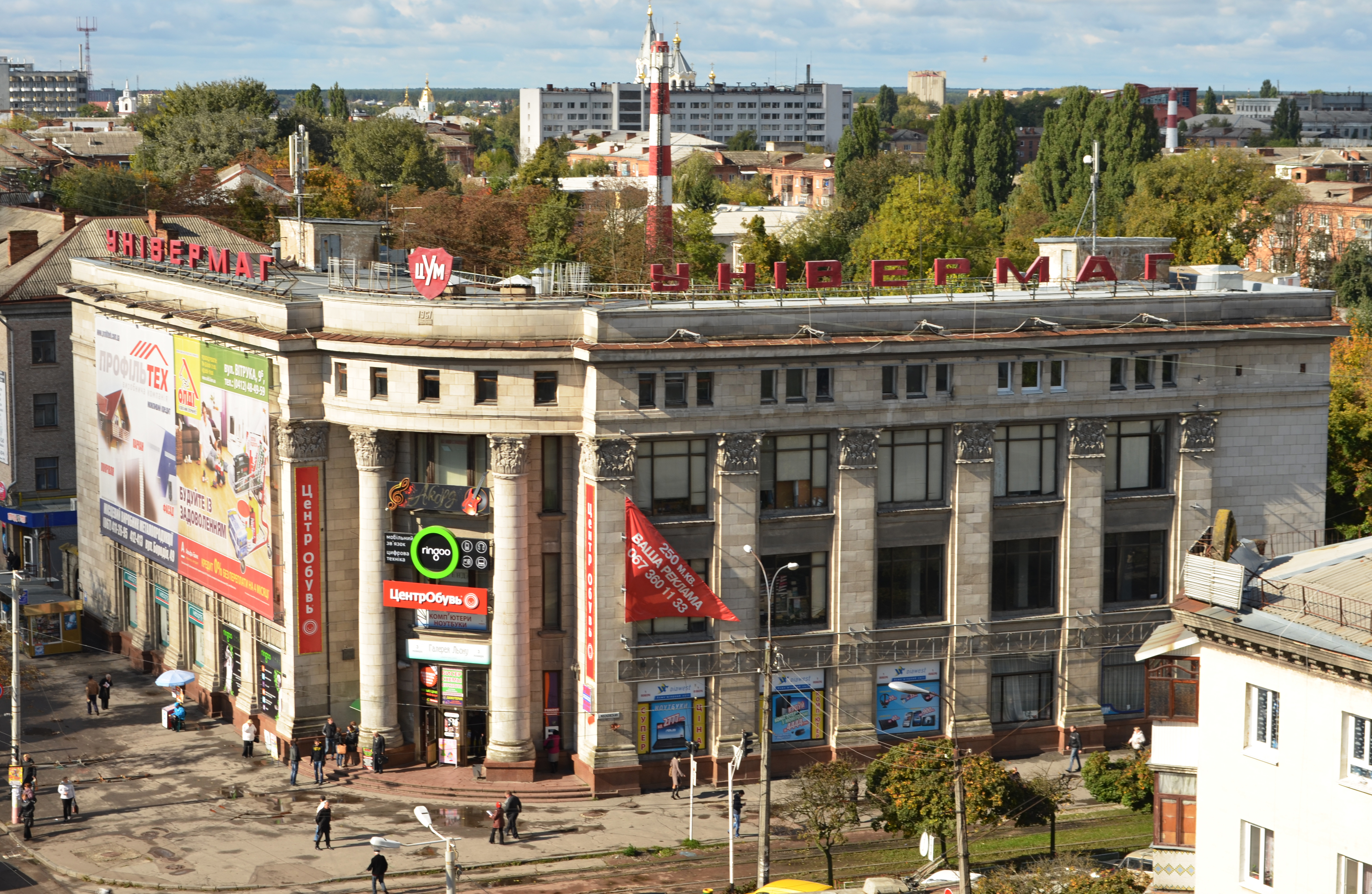 Central Department store of Zhytomyr, Ukraine